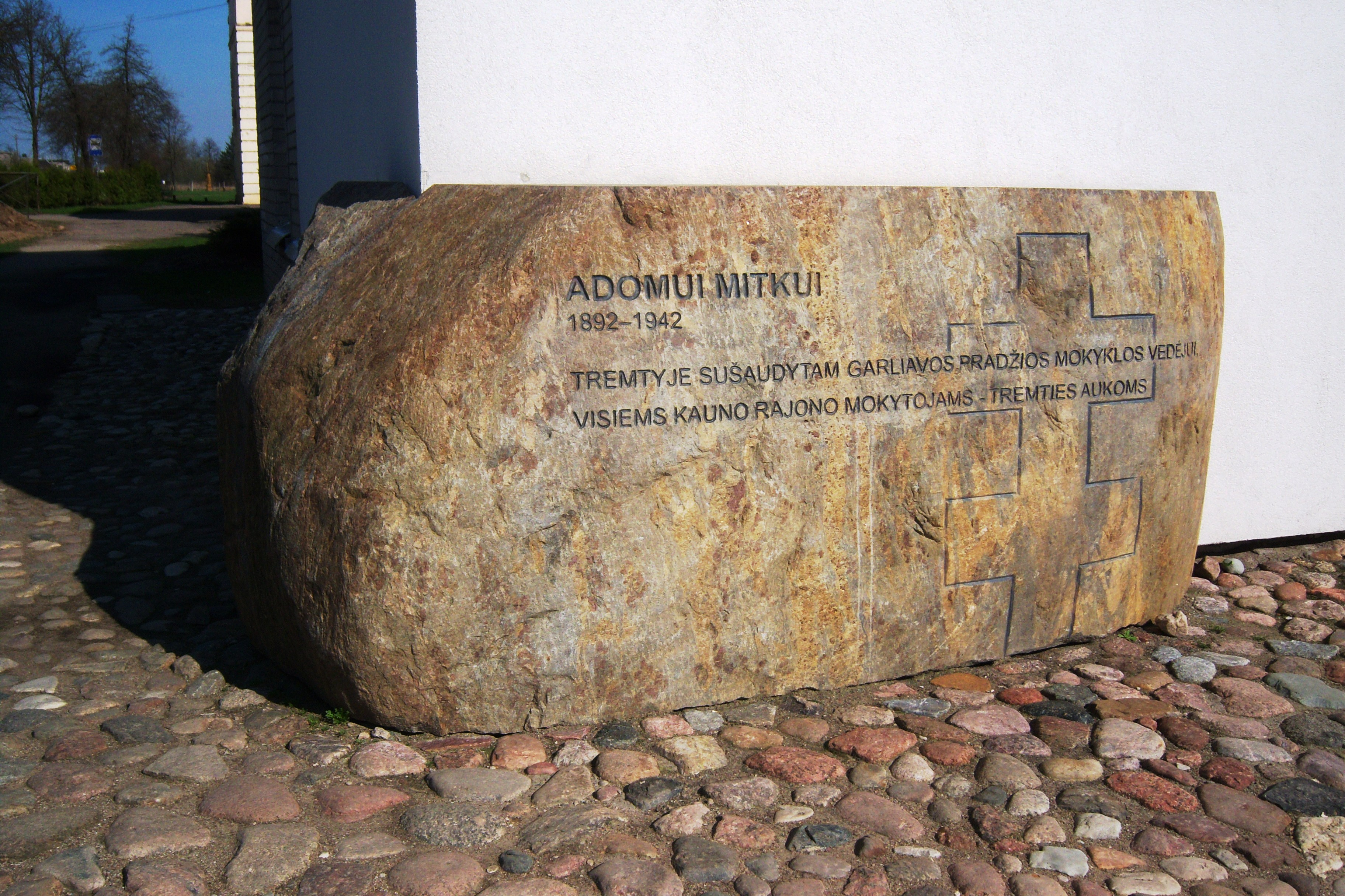 Stone in memory of Garliava High School principal Adomas Mitkus, Kaunas district, Lithuania